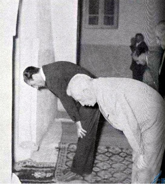 The shah prayers as the "Imam Jama'at"